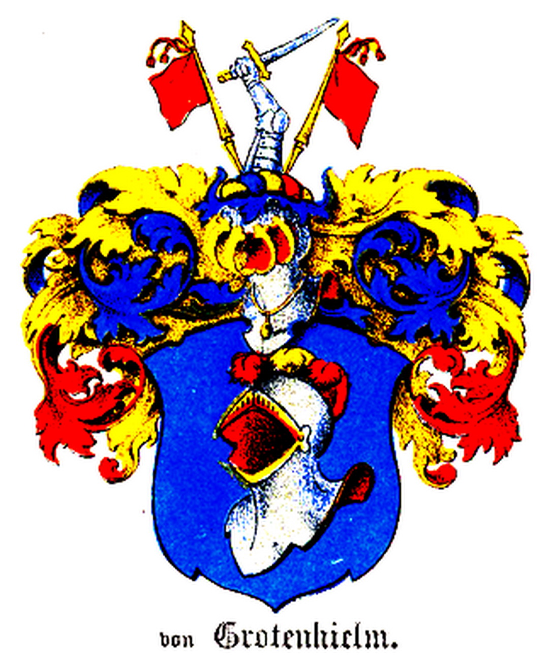 Coat of arms of Grotenhielm family.